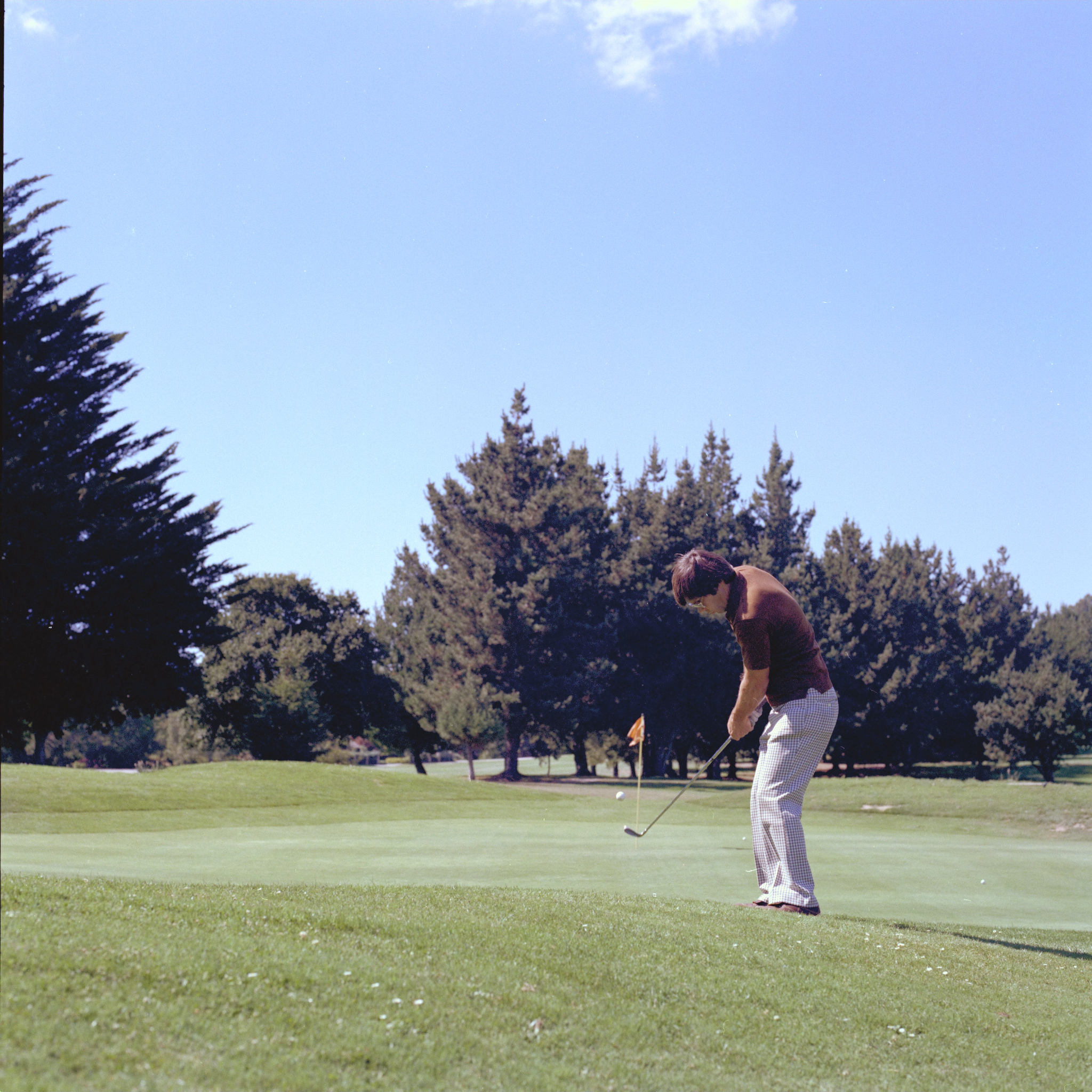 Recruiting Brochure: Shot of Bay Area Sports Activities 1979-1995